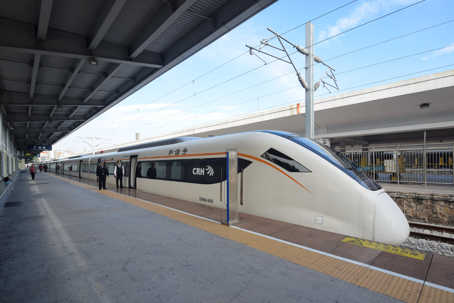 Guangzhou-Foshan-Zhaoqing Intercity Railway CRH6A-0403 EMU at Platform 9 of Guangzhou Railway Station